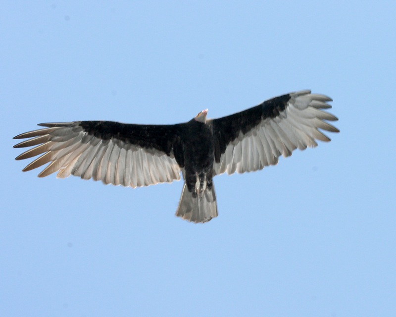 Lesser Yellow-headed Vulture (Cathartes burrovianus) also known as the Savannah Vulture at Ibera Marshes, Argentina.